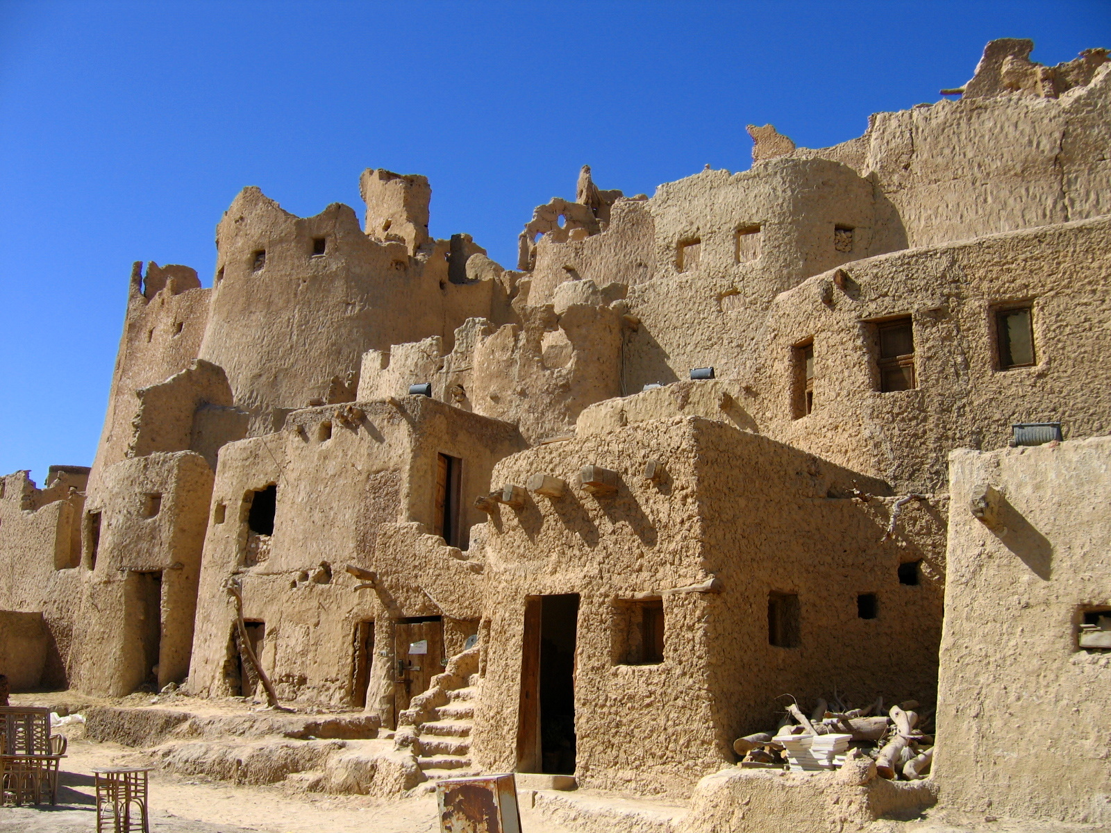 Old homes in the Egyptian desert town of Siwa oasis.